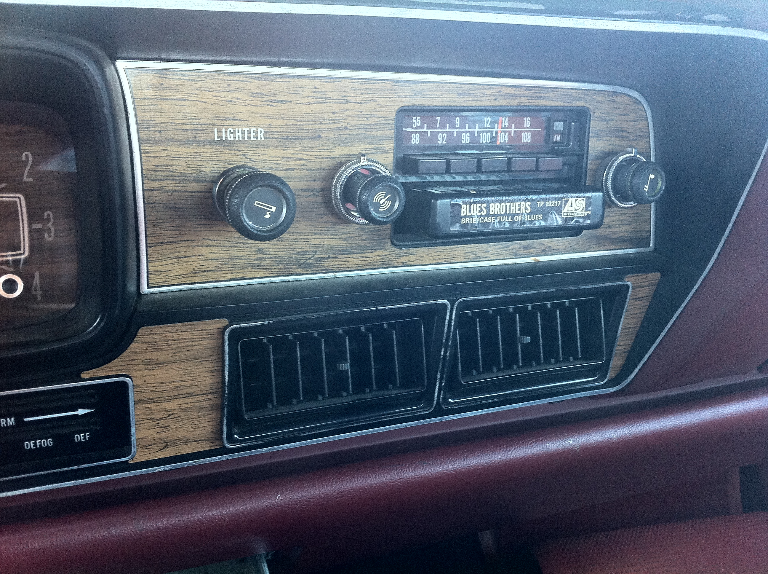 Detail of the factory installed AM/FM/8-track stereo audio unit in the instrument panel of a 1978 AMC Matador four-door sedan (made by American Motors Corporation). Also shown is the a tape cartridge in "play" position. It is the "Briefcase Full of Blues" cartridge, which was the debut album by The Blues Brothers, released late in 1978 by Atlantic Records. Also shown is the dashboard mounted cigarette lighter and canter air vents.